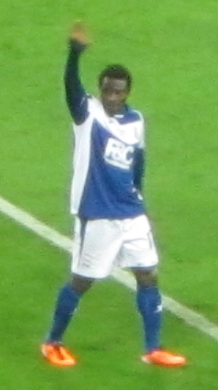 Image of Obafemi Martins after the 2011 Football League Cup Final